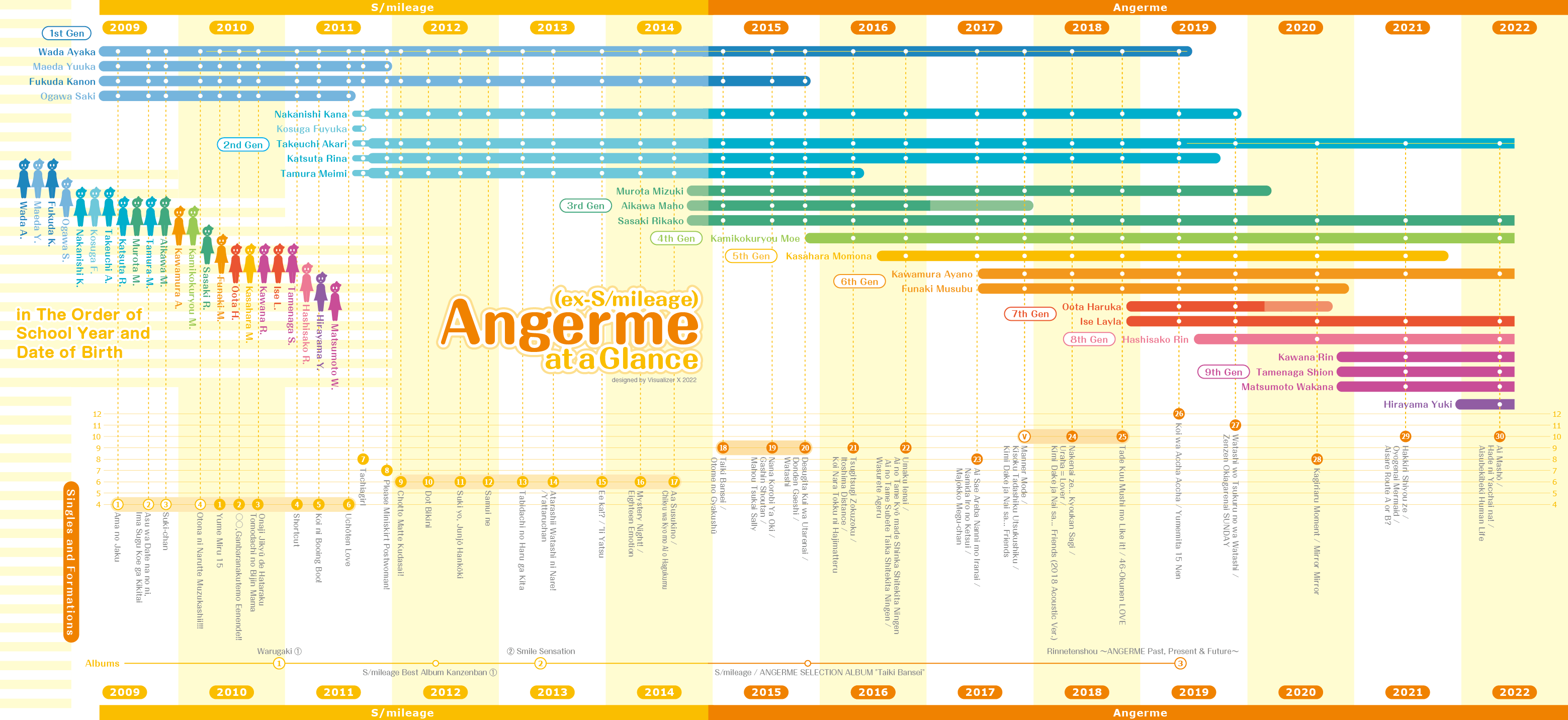 The history of Angerme's transformation